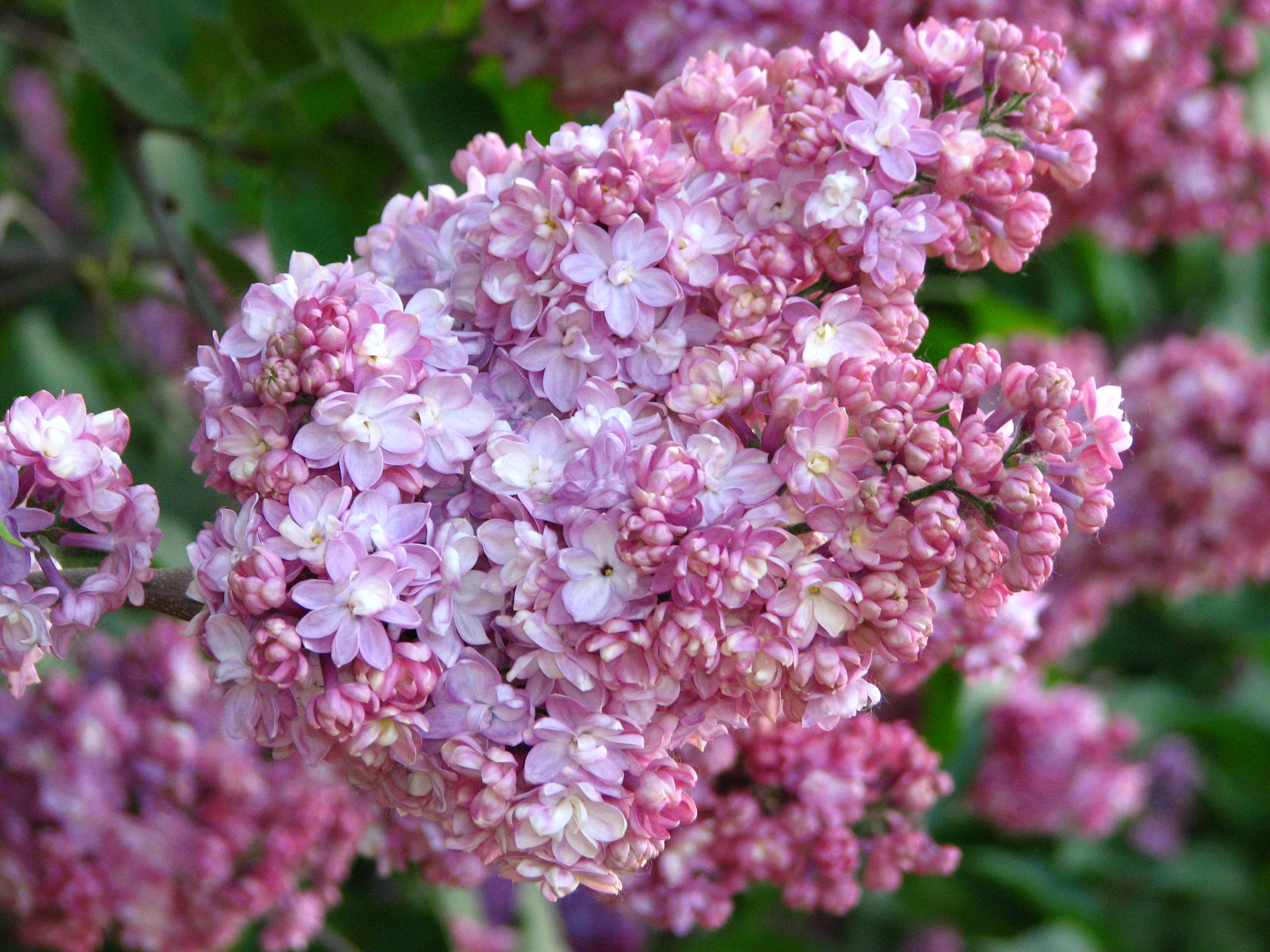 Syringa vulgaris 'Pamyat o Vekhove'. Originator: Vekhov, 1952. From the collection of the Botanical Garden of Moscow State University (main area on the Sparrow Hills).